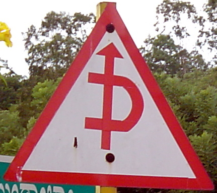 Sign prohibiting overtaking of other vehicles in India